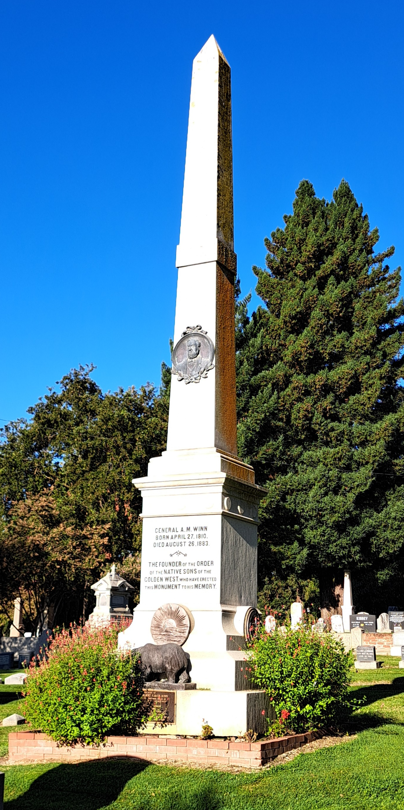 This is a photograph of the grave site of A. M. Winn in the Sacramento Historic City Cemetery.